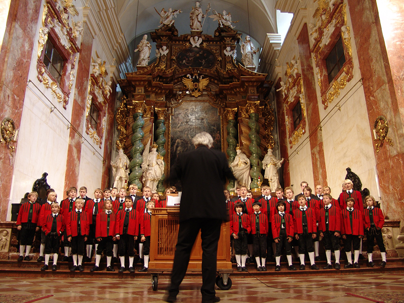 Wilten Boys' Choir in St. Rochus Church, Vienna, Austria